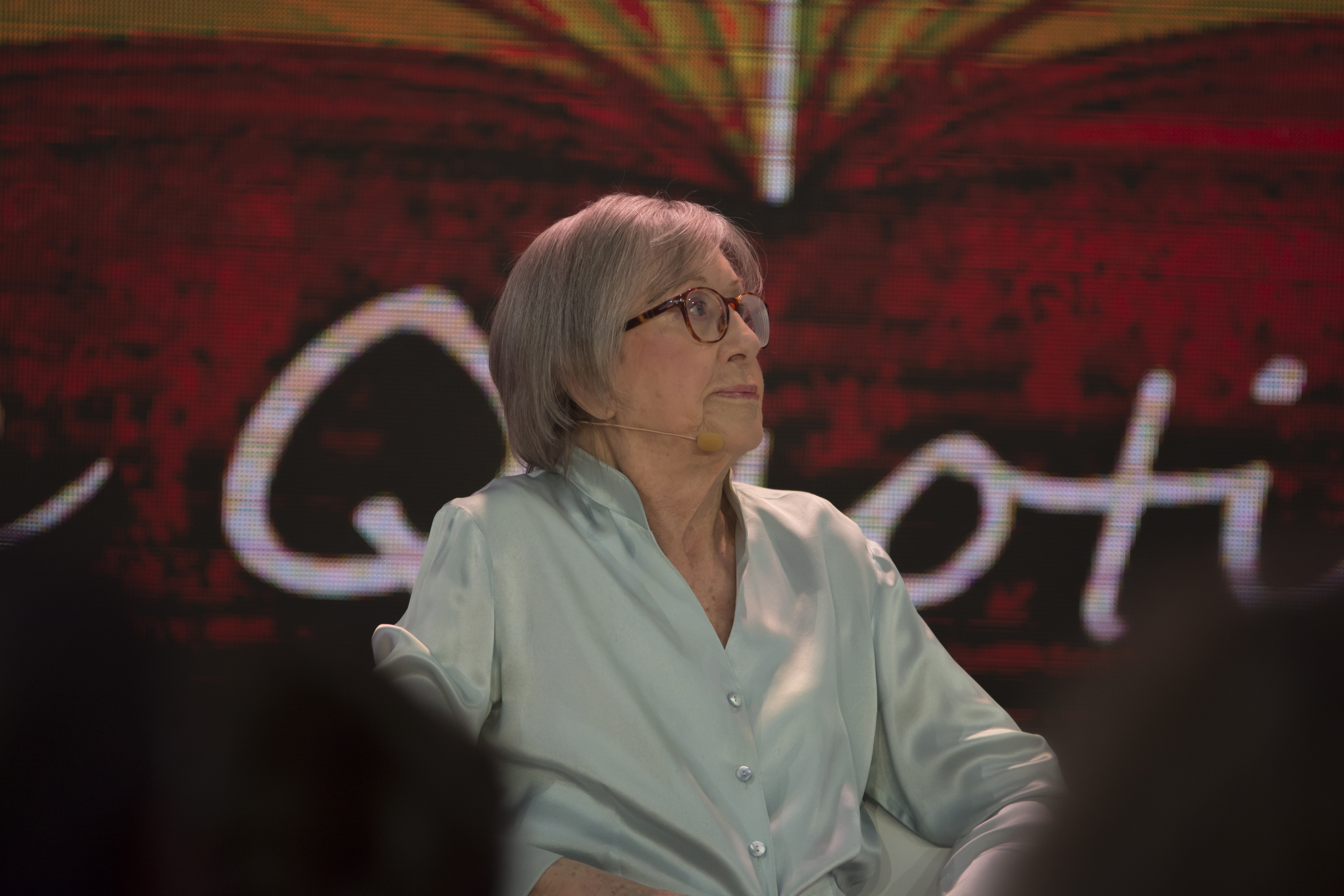 Natalia Aspesi at XXIX Salone Internazionale del Libro 2016.